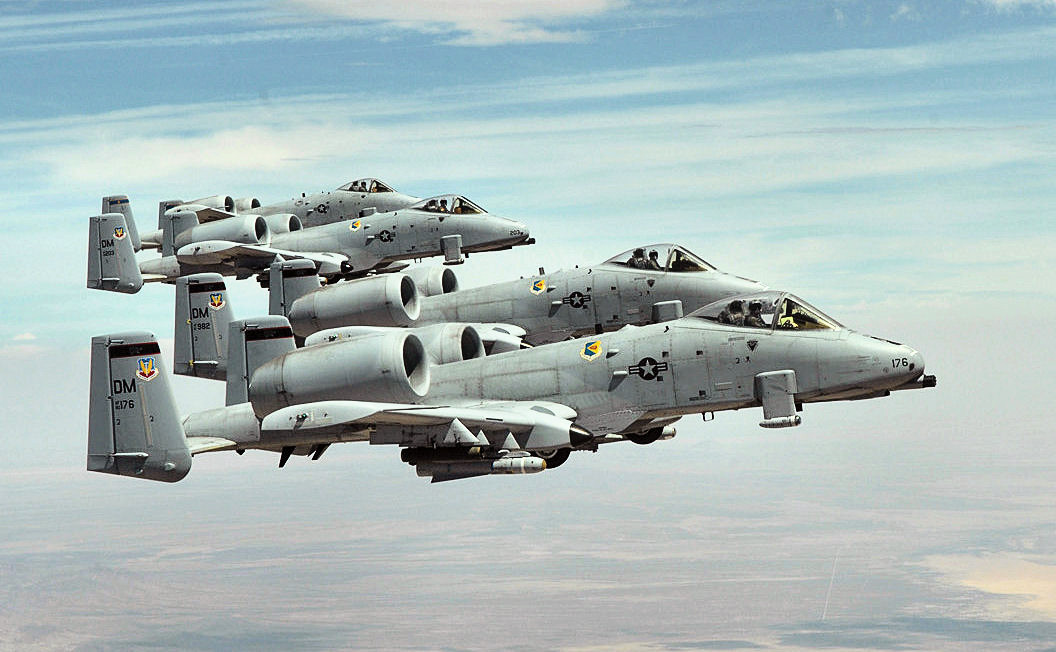 A-10s of the 355th Fighter Wing over Arizona